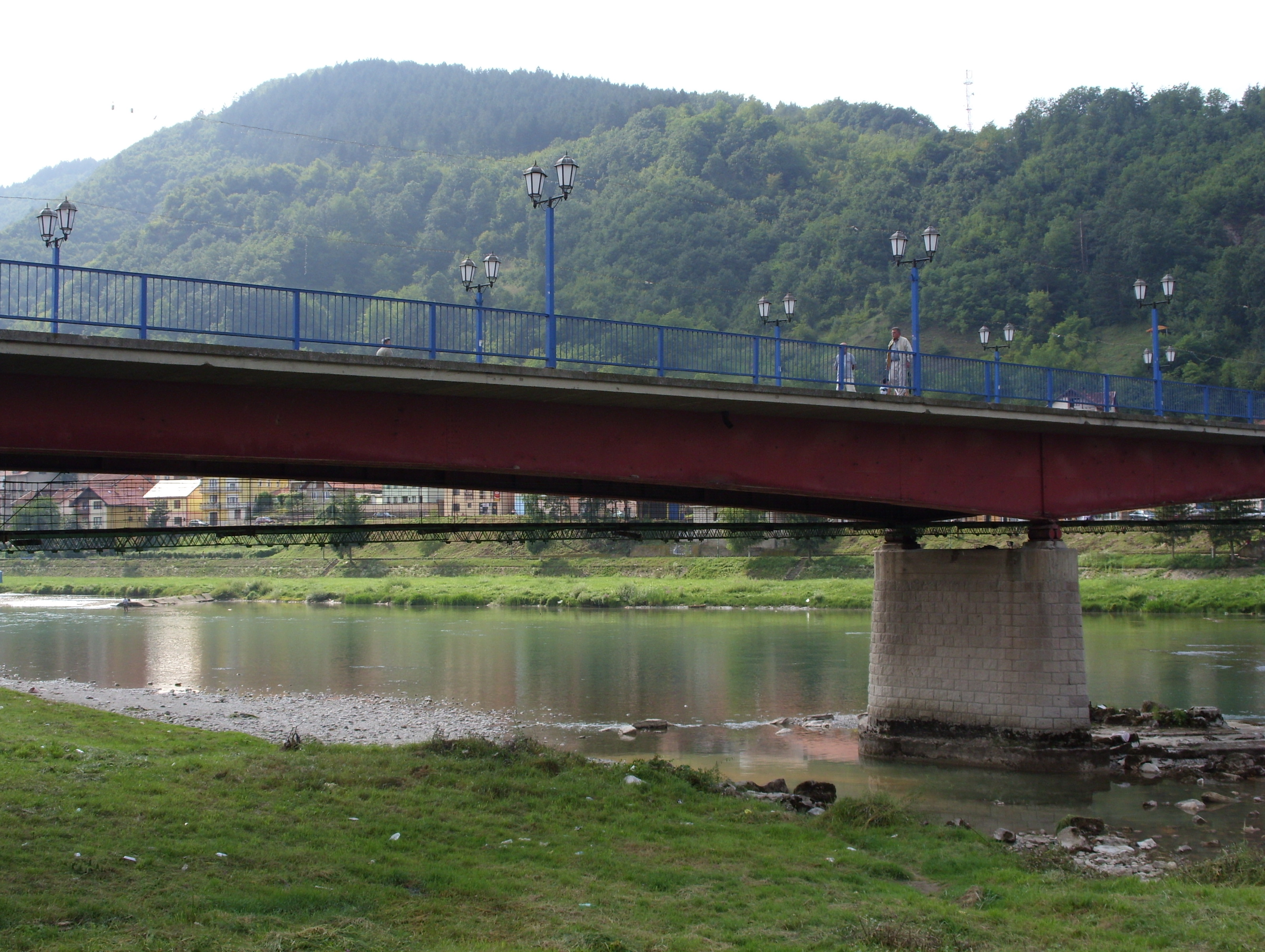 "Doubledecker bridge" on Drina River in Goražde, Bosnia. Hornjoserbsce: "Dwójny móst" přez rěku Drina w Goraždźe, Bosniska.